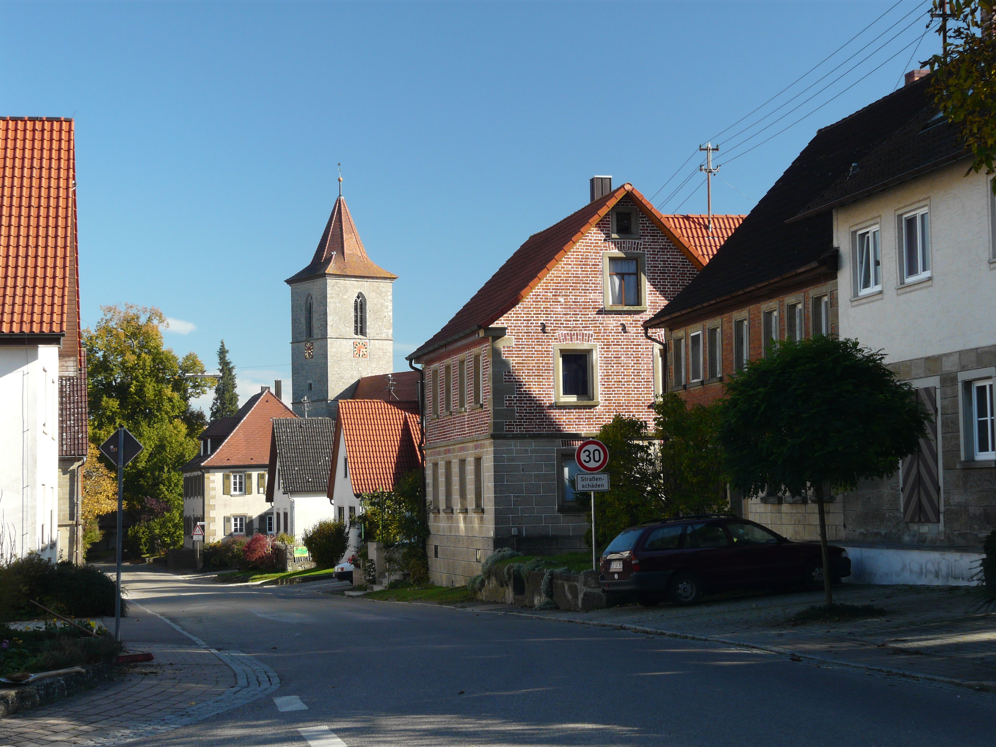 Gammesfeld, part of the municipality of Blaufelden